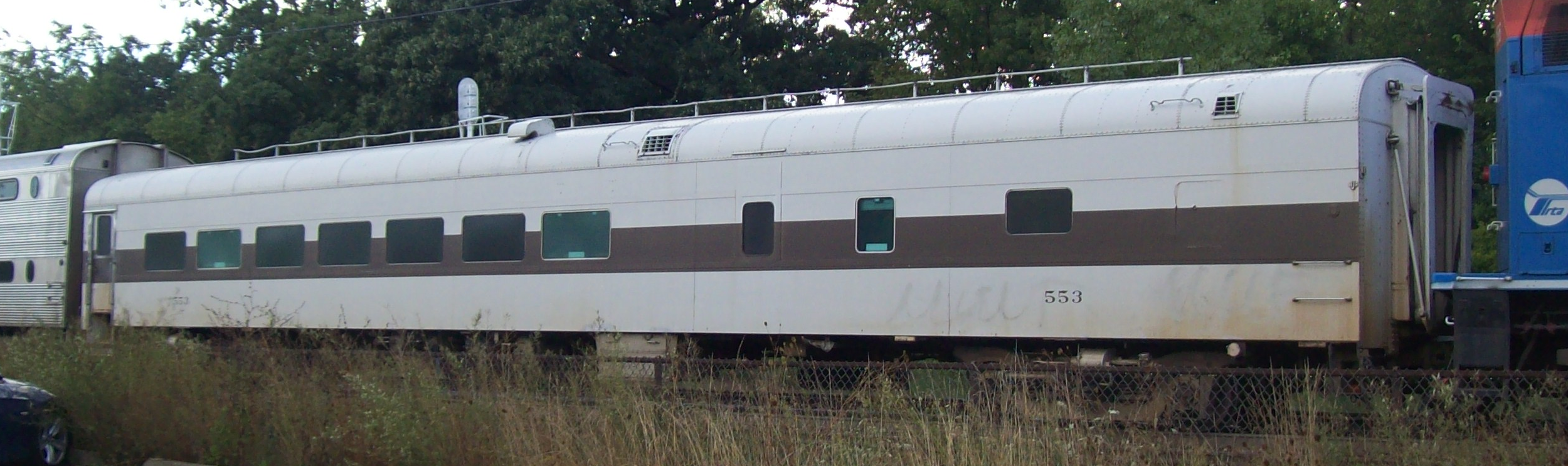 Photograph of Car 553, the last privately owned commuter railcar in the United States, on a Metra train in Lake Bluff, Illinois, photographed from the station platform on August 20th, 2012.